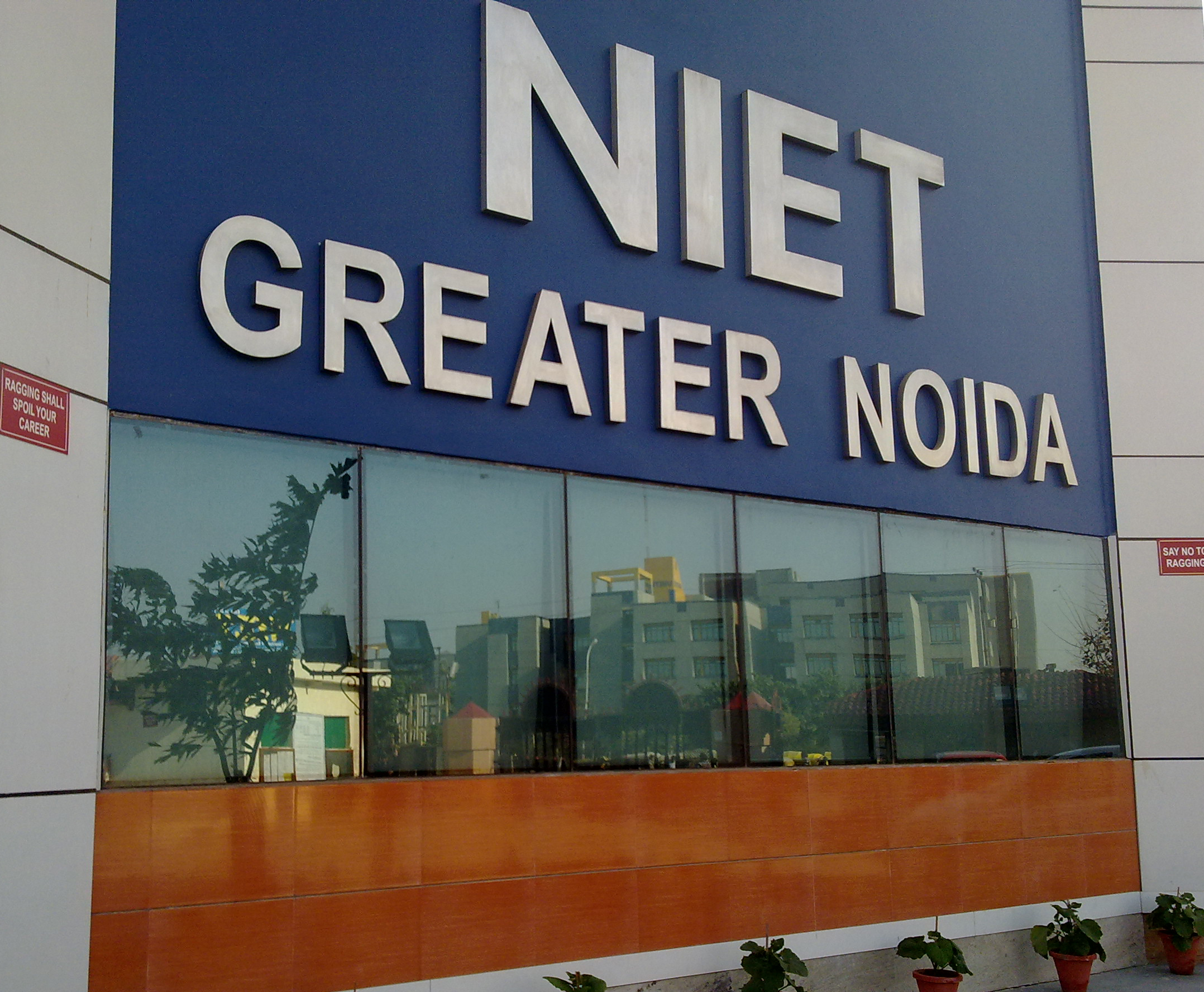 Noida Institute of Engineering and Technology(NIET)